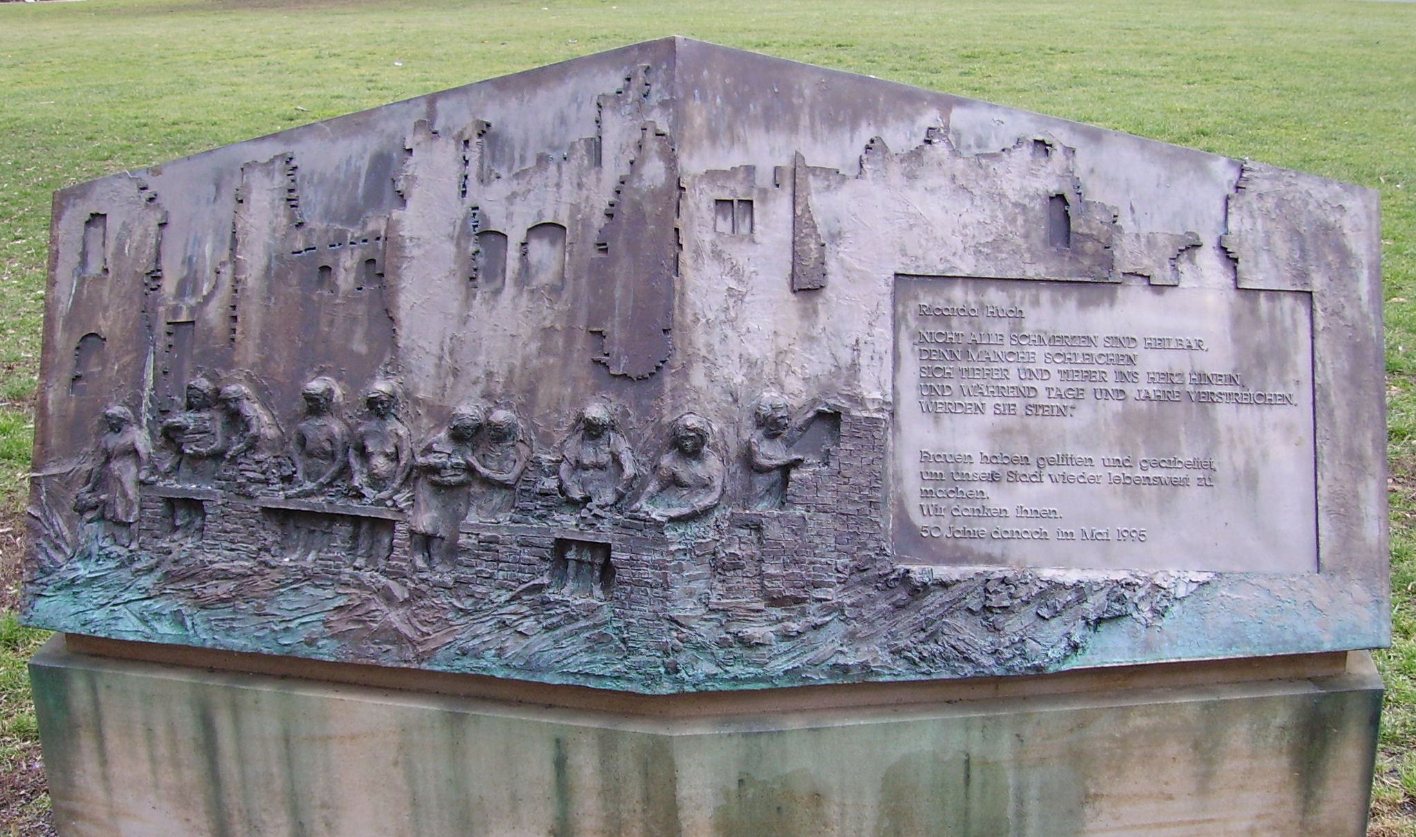 Trümmerfrauen monument in Mannheim, Germany